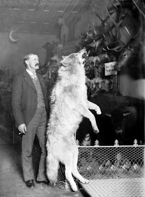 Edwin Carter (Taxidermist) Collection, Mounted Colorado Gray Wolf, Canis lupus, ca. 1890-1900, photo by Harry Hale Buckwalter (1867-1930)